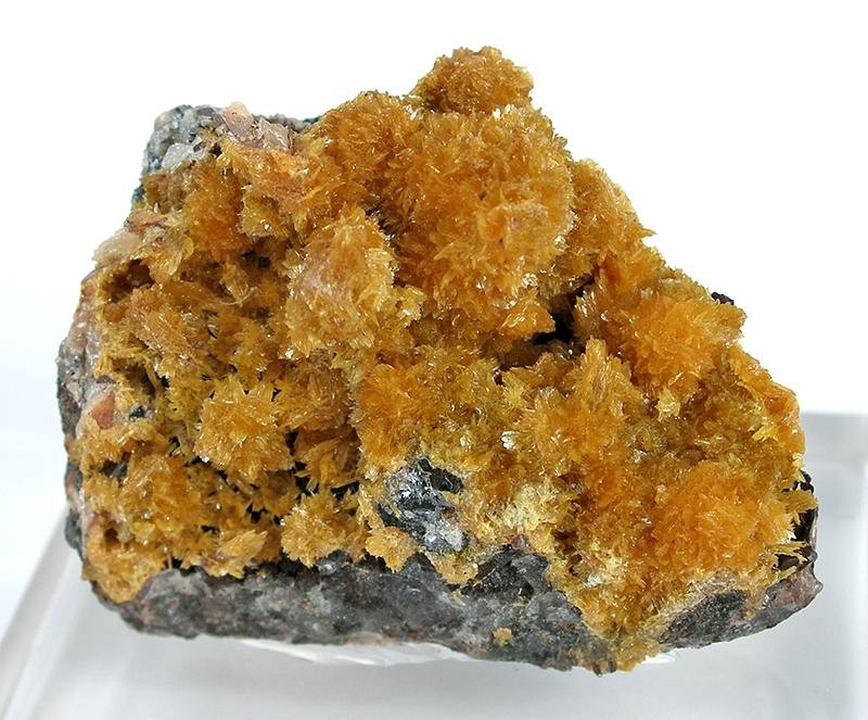 Tsumcorite Locality: Tsumeb Mine (Tsumcorp Mine), Tsumeb, Otjikoto (Oshikoto) Region, Namibia (Locality at ) Size: 3.7 x 2.9 x 1.8 cm. Freestanding crystals of tsumcorite in relatively large clusters to several mm.